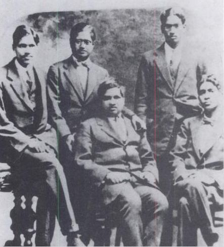 Ananda Rau is seated on the high stoolat the far left